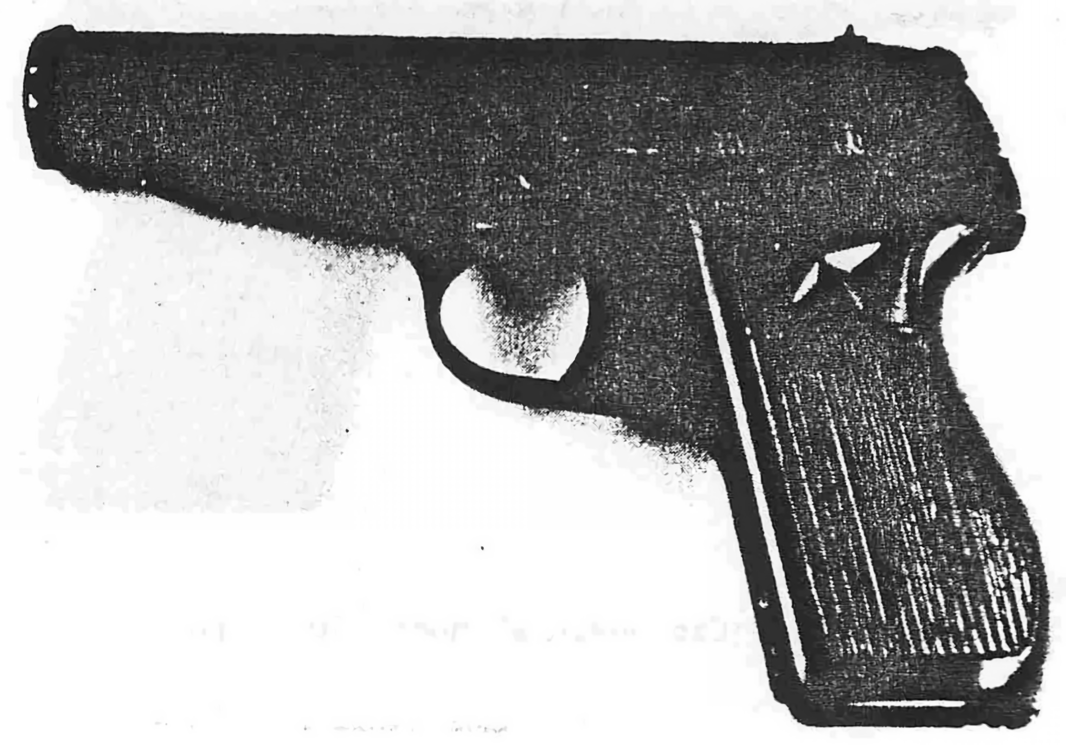 type 70 pistol